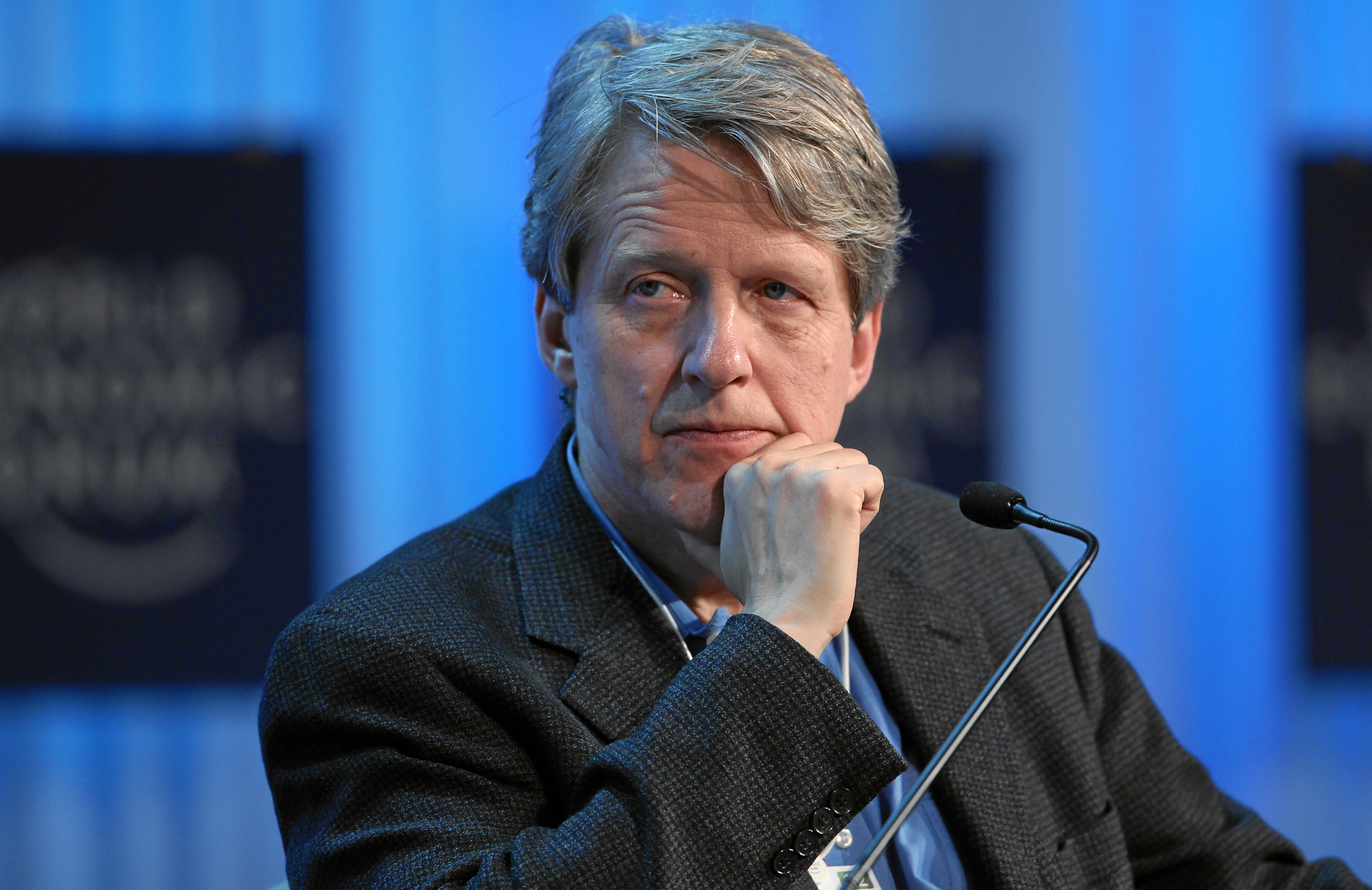 DAVOS/SWITZERLAND, 28JAN12 - Robert J. Shiller, Arthur M. Okun Professor of Economics, Yale University, USA is captured during the session 'Pundits, Professors and their Predictions' at the Annual Meeting 2012 of the World Economic Forum at the congress centre in Davos, Switzerland, January 28, 2012. Copyright by World Economic Forum by Moritz Hager